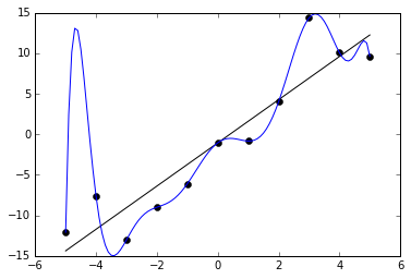 Somewhat noisy linear data fit to both a linear function and to a polynomial of 10 degrees. Although the polynomial function is a perfect fit, the linear version can be expected to generalize better. In other words, if the two functions were used to extrapolate beyond the fit data, the linear function would make better predictions.